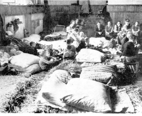 Czech refugees from the border - in October 1938